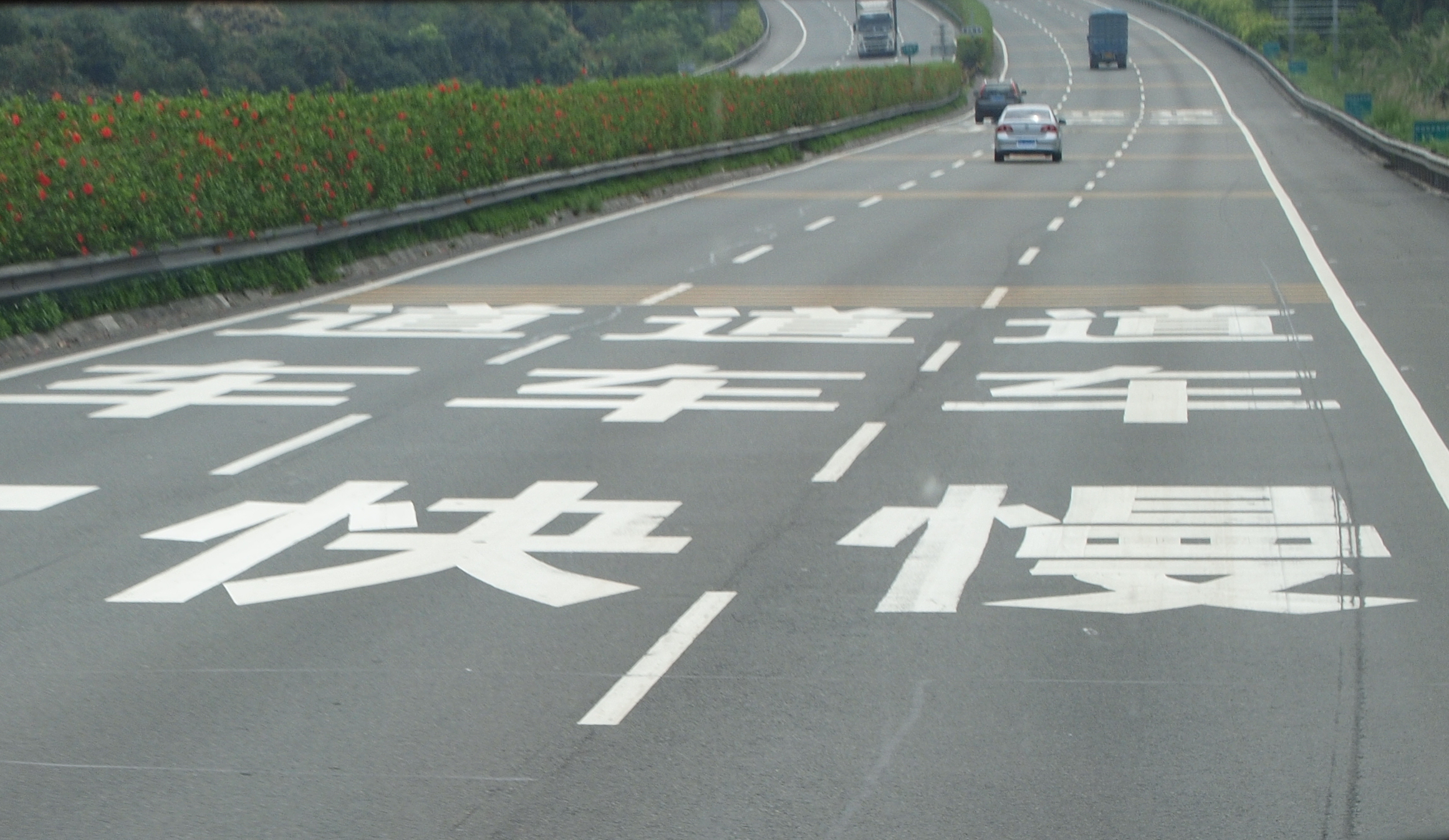 Bottom to top Chinese character reading order on Guangdong S27 Expressway. The right lane reads 慢车道 for "slow lane" while the middle lane reads 快车道 for "fast lane".